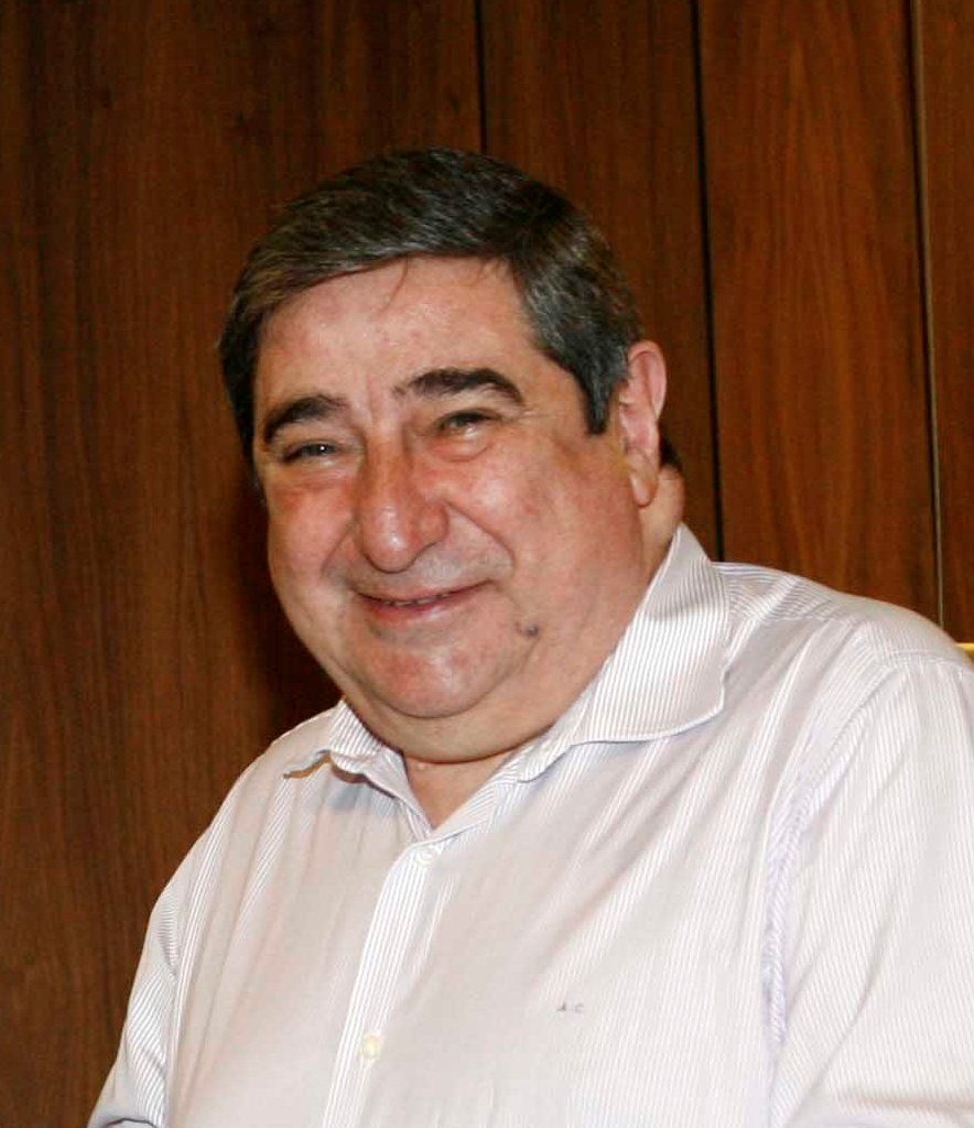 Augusto Joaquín César Lendoiro, CEO of Deportivo de La Curuña